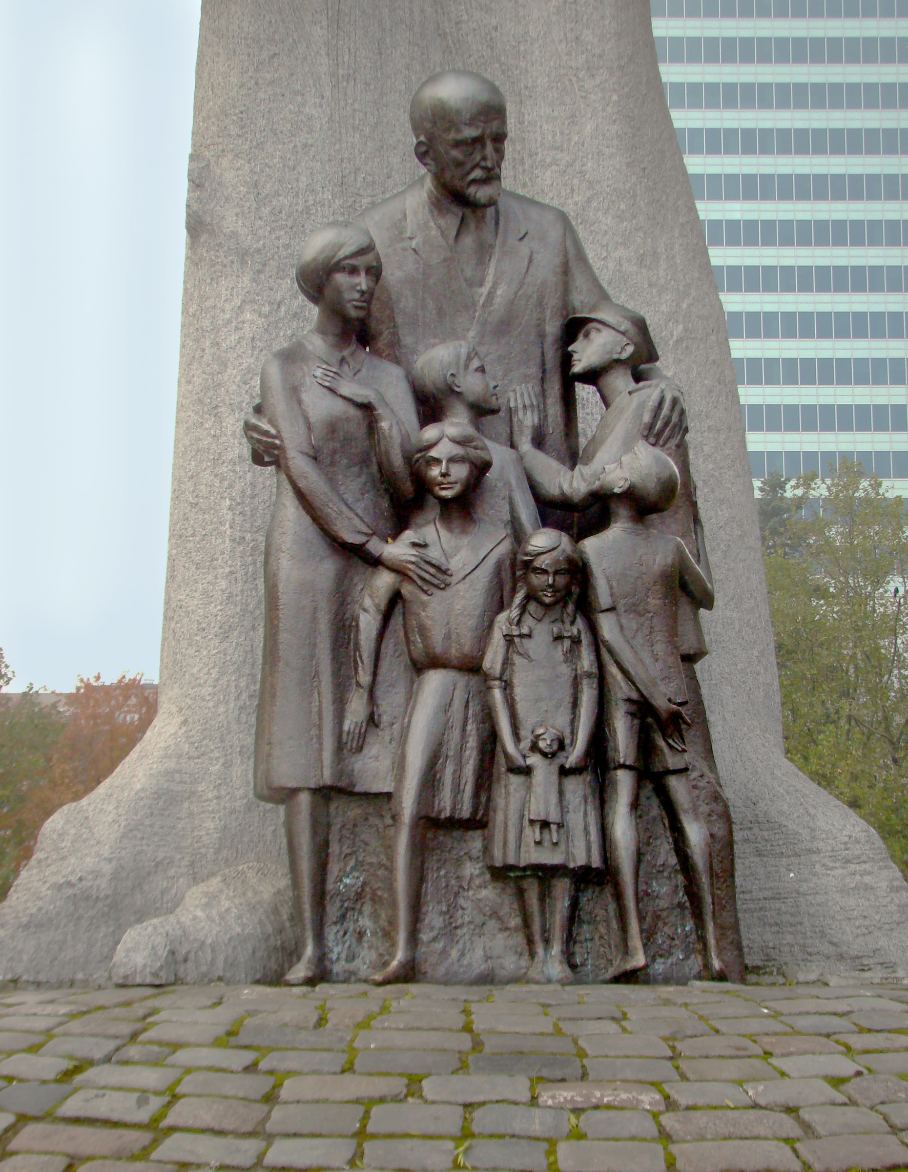 Janusz Korczak monument Warsaw